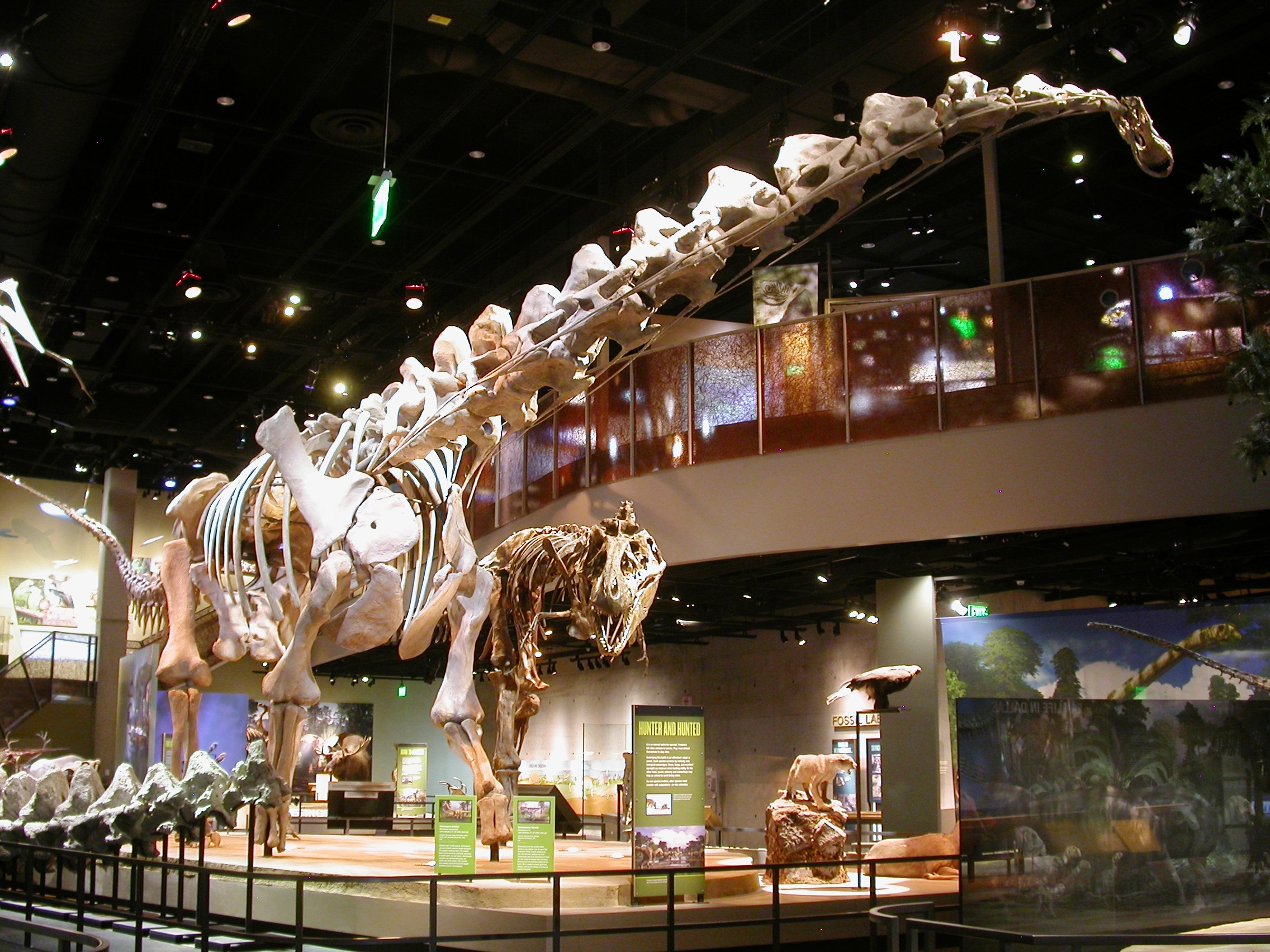 Alamosaurus mount in Perot museum